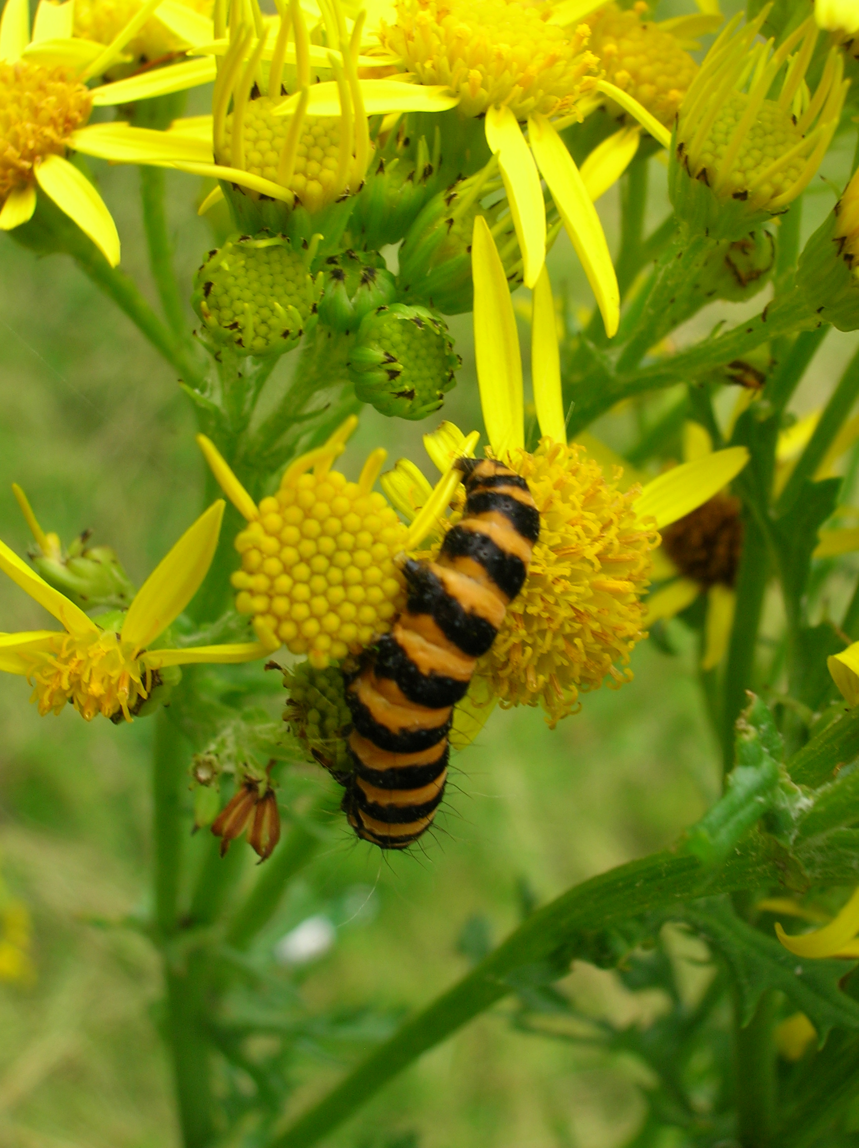 Caterpiller (Tyria jacobaeae) munching on ragwort in West Yorkshire. The poison in the ragwort doesn't kill the caterpiller, but on the contrary it is deposed inside the animal - and eventually transferred to the butterfly. In that way both caterpillar and butterfly turn poisonous for their enemies.